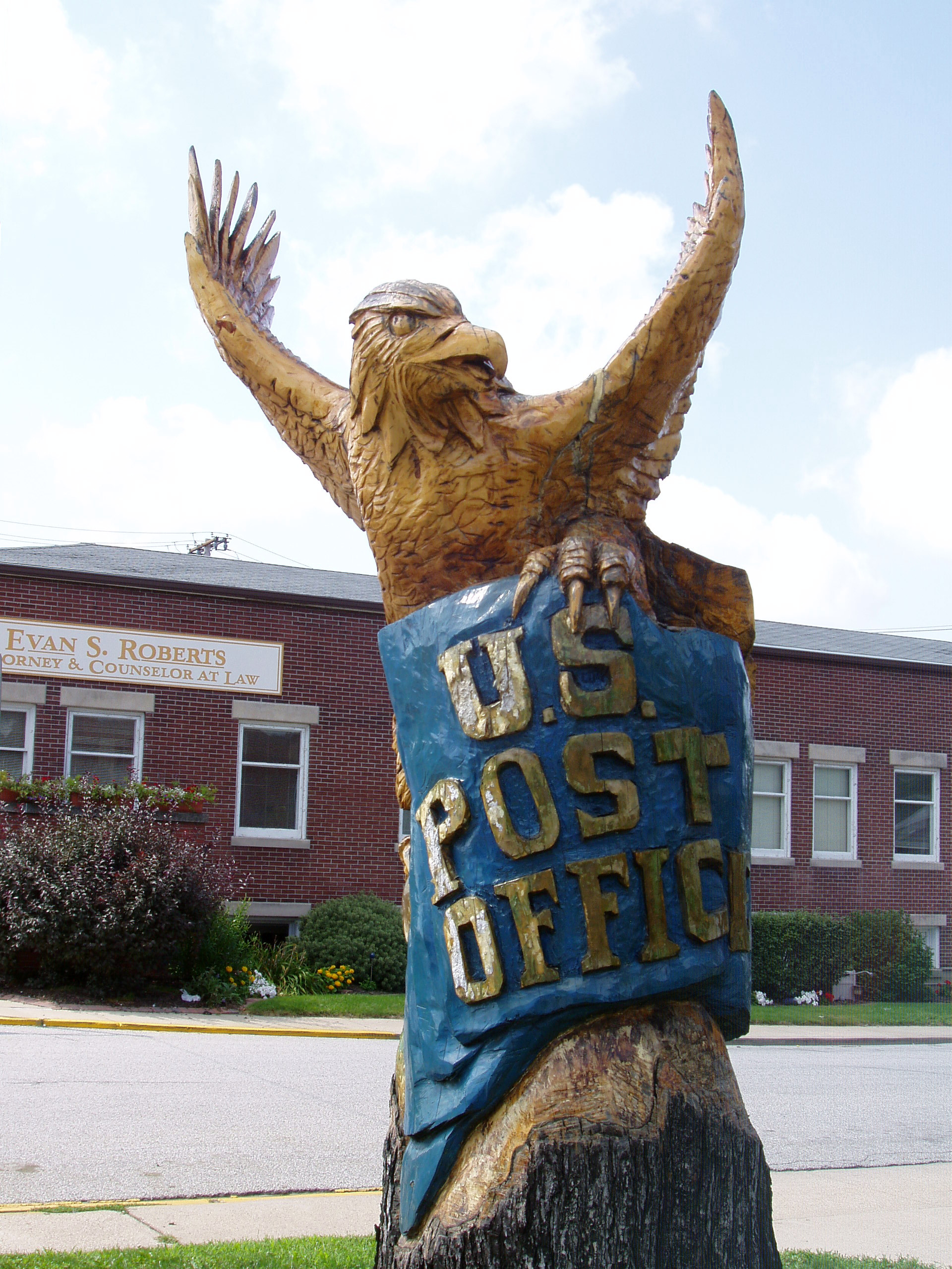 Carved tree stump Post Office sign in Nappanee, Indiana.